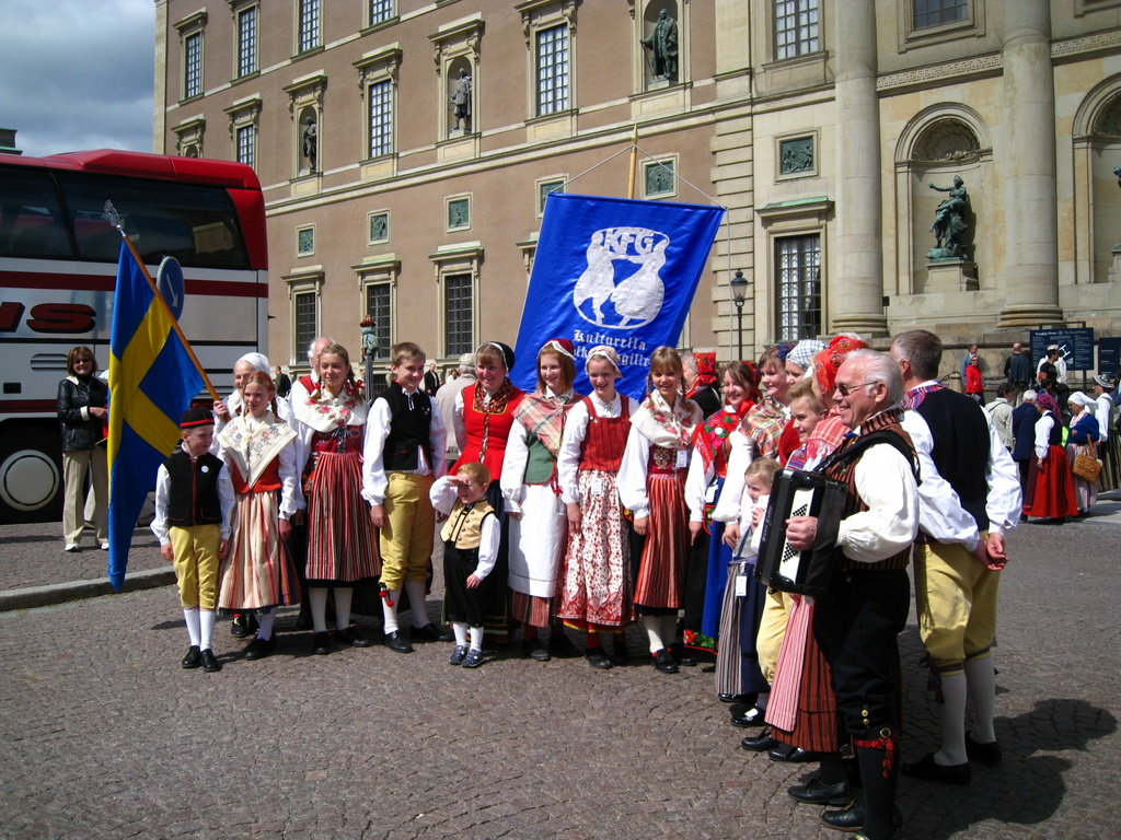 Stockholm, Gamla Stan, people in traditional costumes.